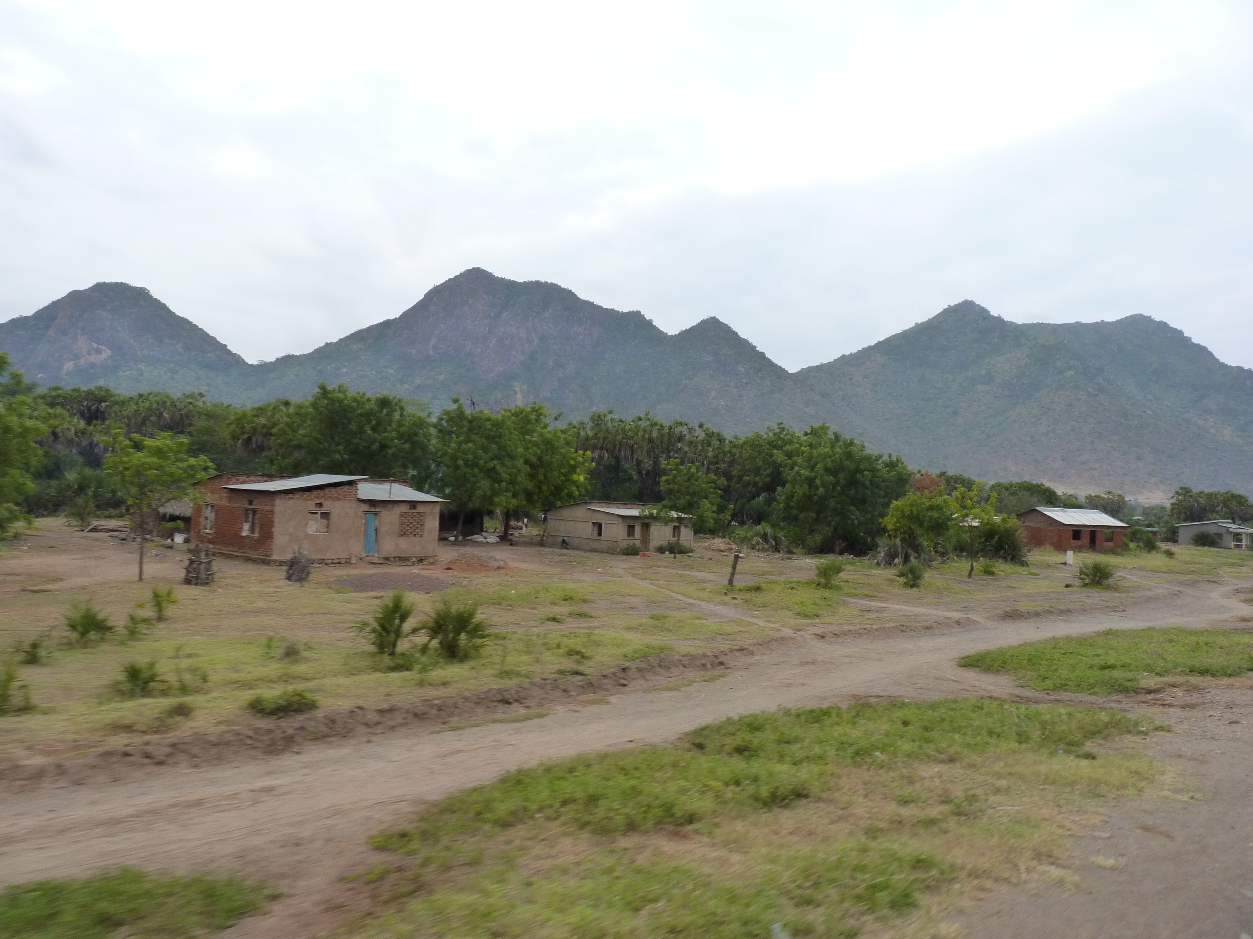 View of North Pare Mountains